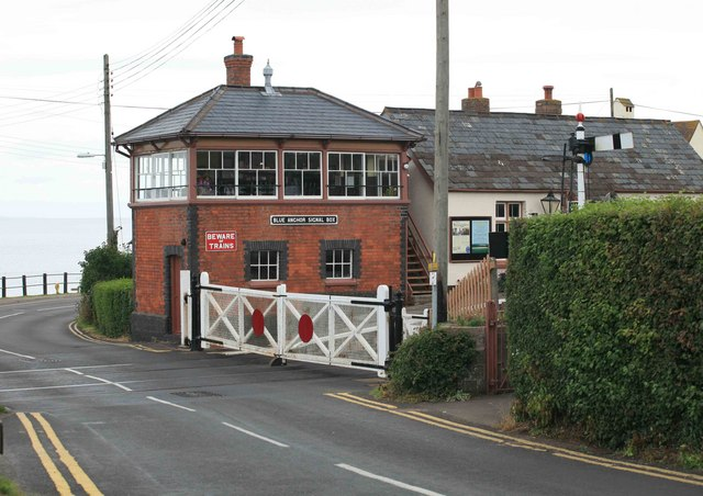 Blue Anchor signal box and crossing gates Looking down the hill at the signal box and crossing. No trains about at the moment. The first one today is the 1015 departure from Minehead due at 1030 hrs.